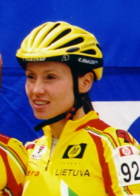 Jolanta Polikeviciute stand side by side on the podium following Stage 4 (Stanley to Ketchum) of the 2002 Women's Challenge bicycle race.